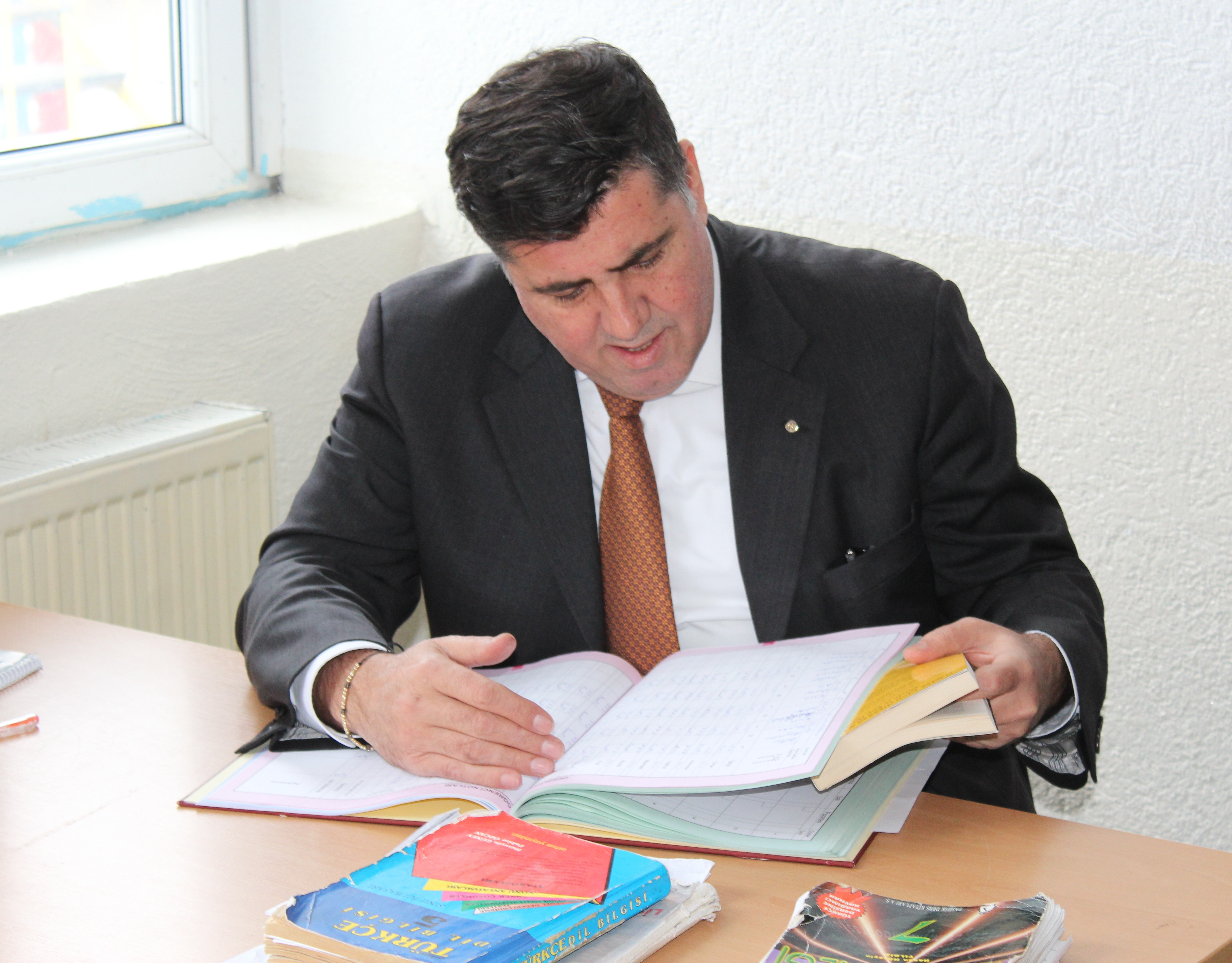 Mayor's Lutfi Haziri from Municipality of Gjilan, visit in school. Mr. Haziri in other jobs, teacher.